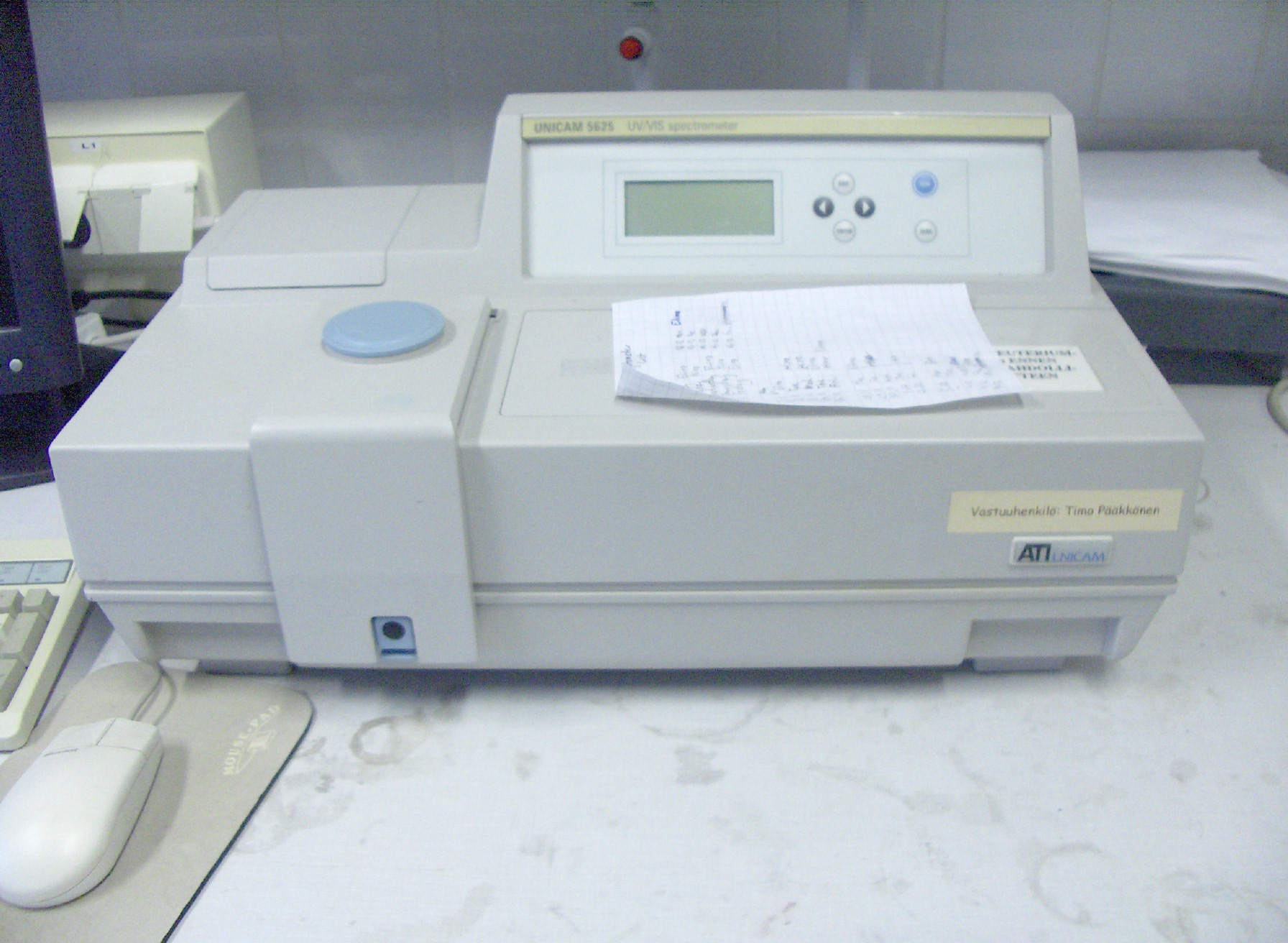 Unicam 5625 UV/Vis Spectrophotometer